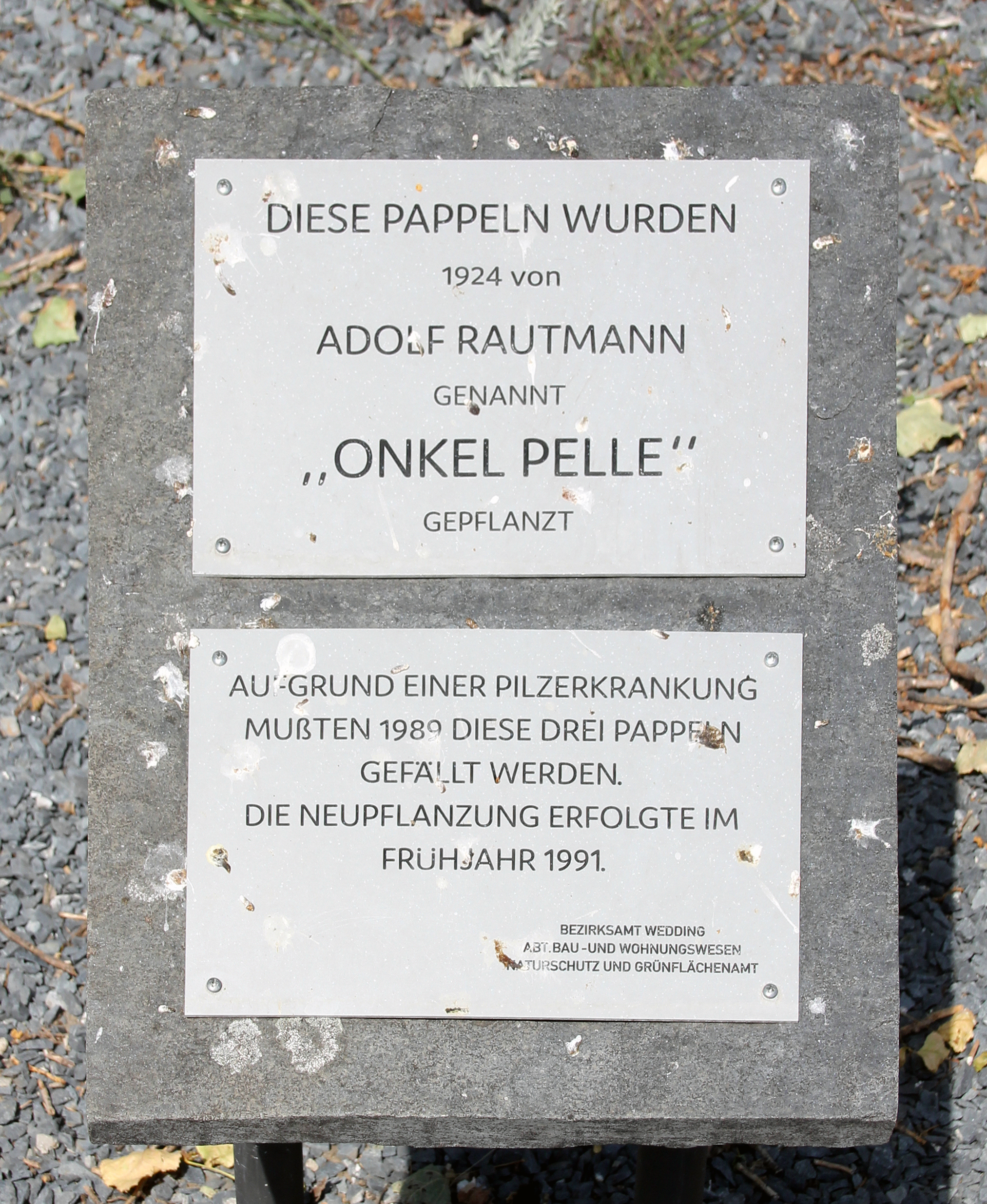 Memorial plaque, Adolf Rautmann, Müllerstraße 147, Berlin-Wedding, Deutschland